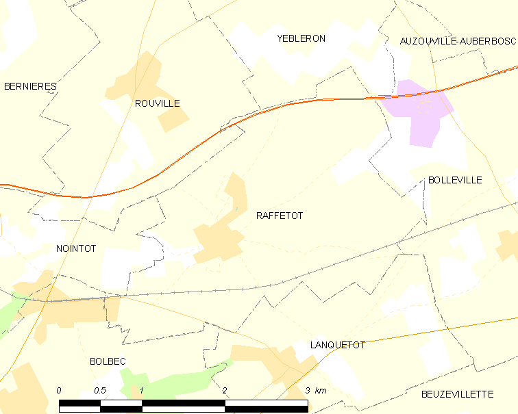 Map of French municipality Raffetot